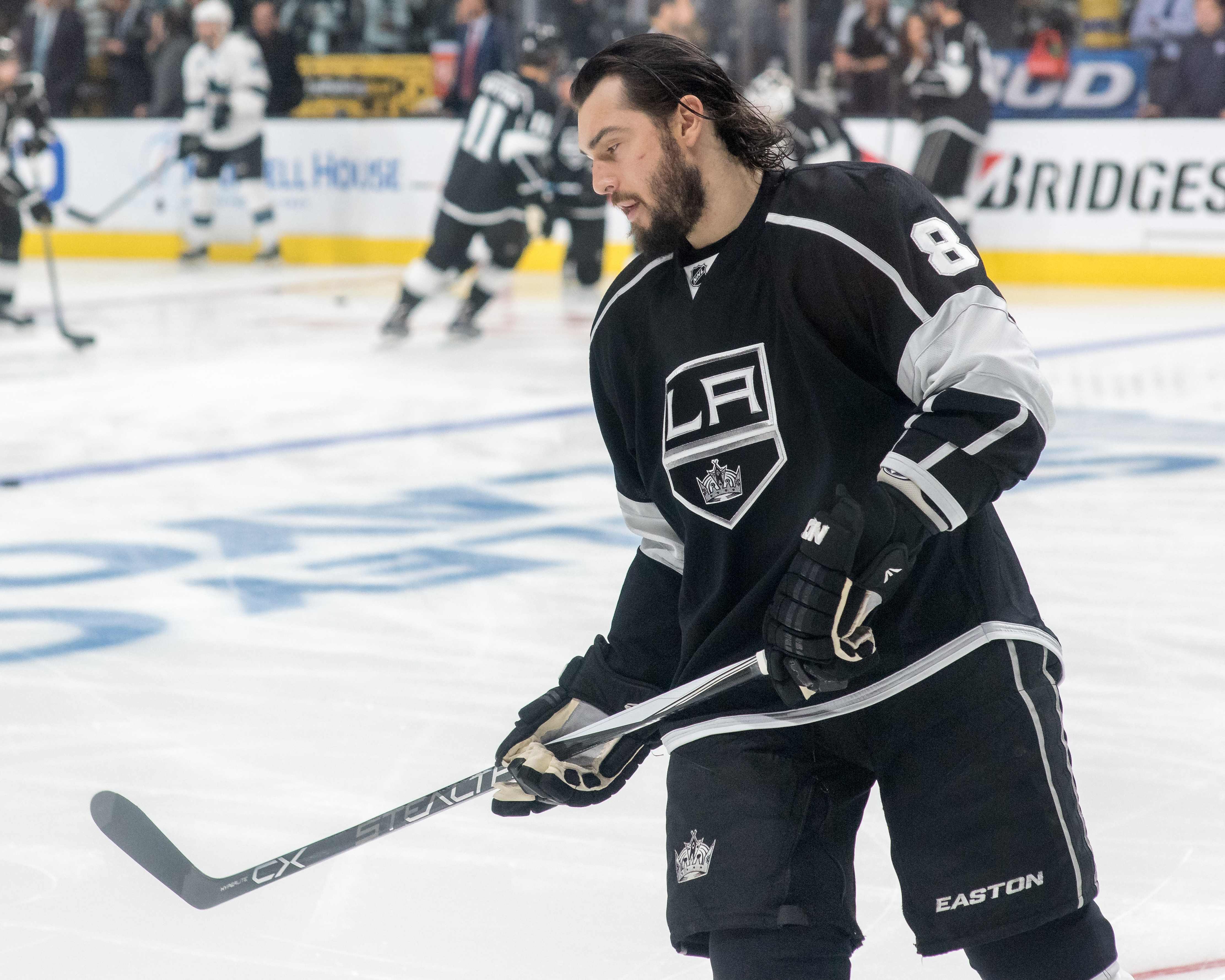 Drew Doughty